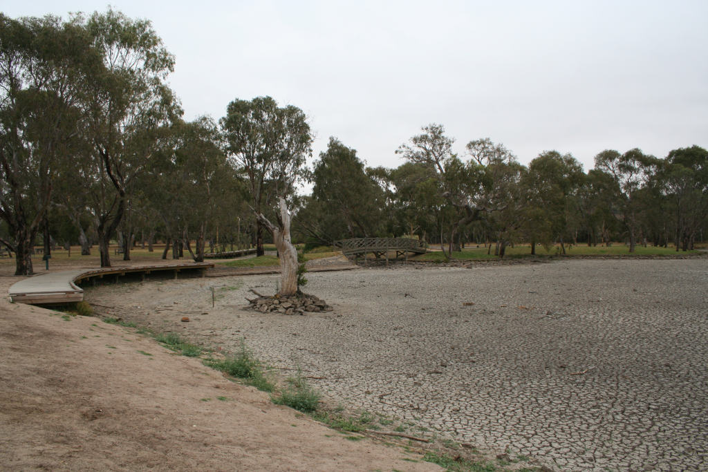 Empty lake at Balyang Sanctuary - Geelong, Victoria, Australia. For the same view with water, see